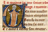 Illuminated capital depicting Saint Osith (c. 653). Identity of character confirmed by the text "La Vie seinte Osith, virge e martire" above the capital. From